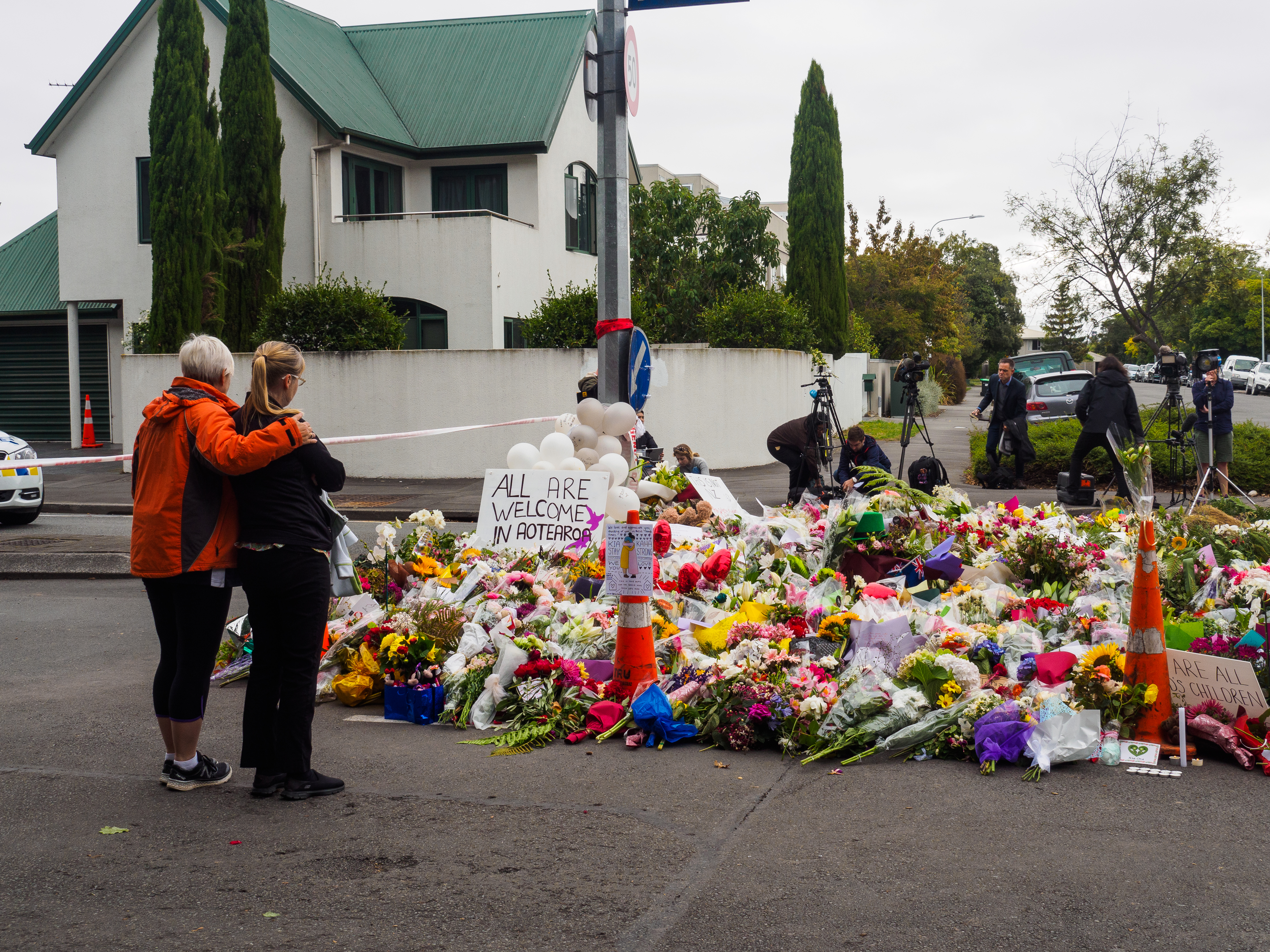 Women leaving flowers near the Al Noor Mosque, as a symbol of shared grief for the victims of the Christchurch mosque shootings.